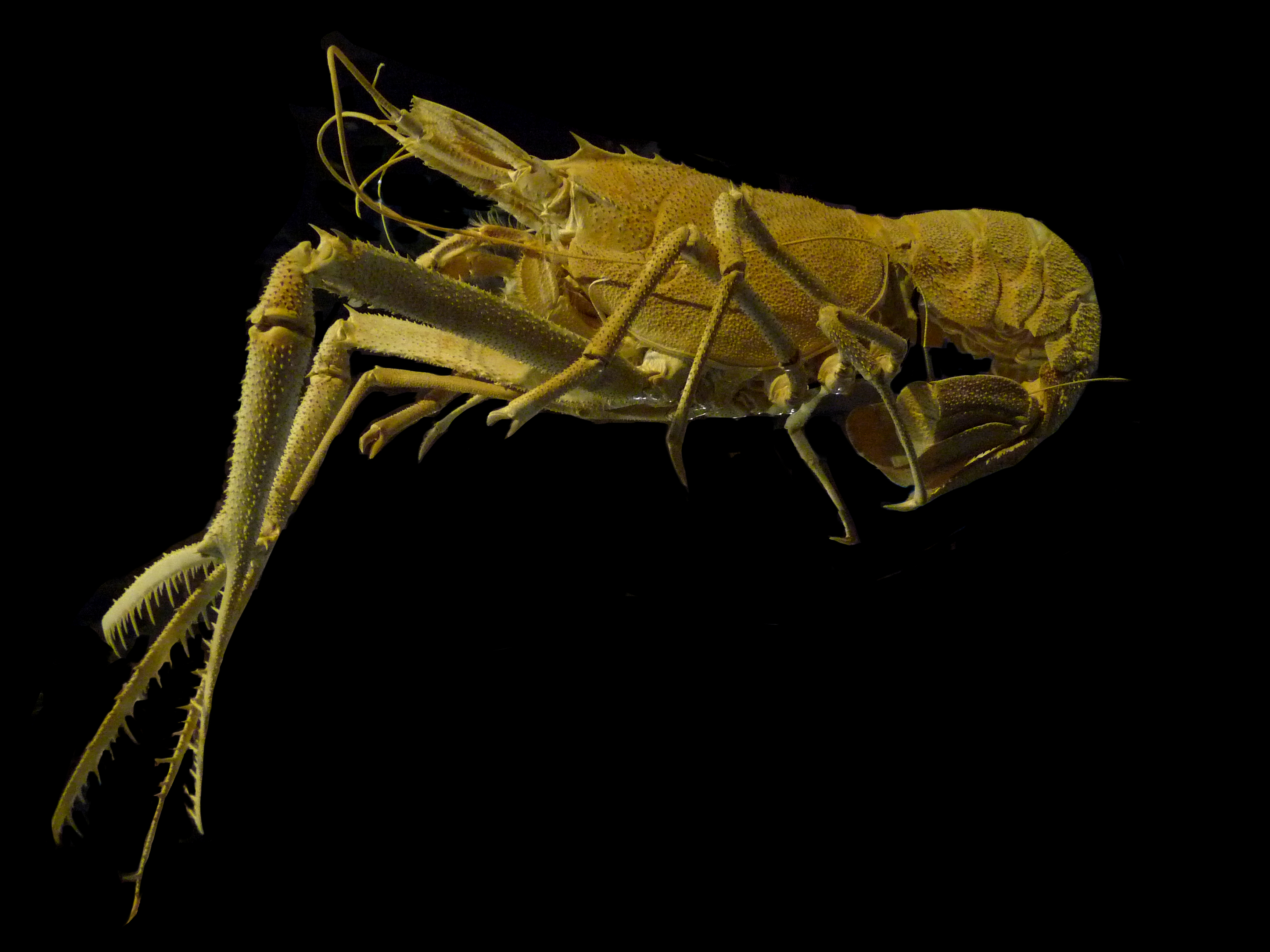 Acanthocaris tenuimana